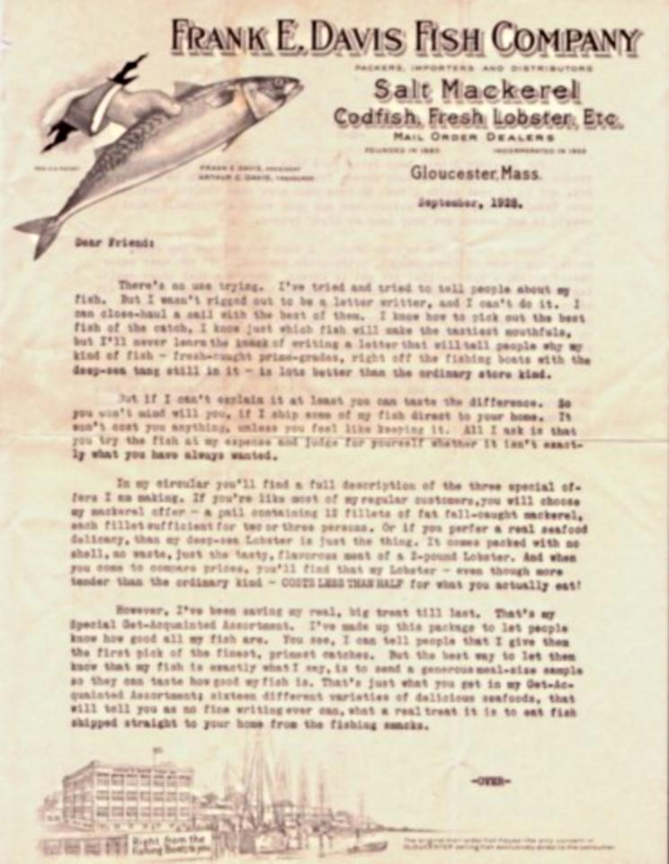 First page of a 1928 direct mail marketing advertisement for seafood products from Frank E. Davis Fish Company.